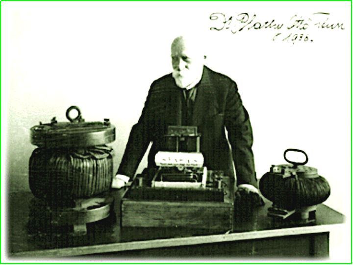 Ottó Titusz Bláthy (1860-1939), one of the inventors of the transformer